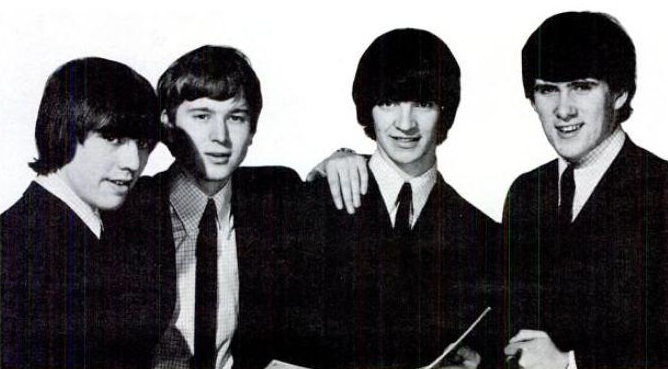 Trade ad for a US tour of The Swinging Blue Jeans and The Escorts. To better adapt it to his respective Wikipedia article, the ad was cropped and cleaned in a graphics editing program. The original can be viewed at the source below.